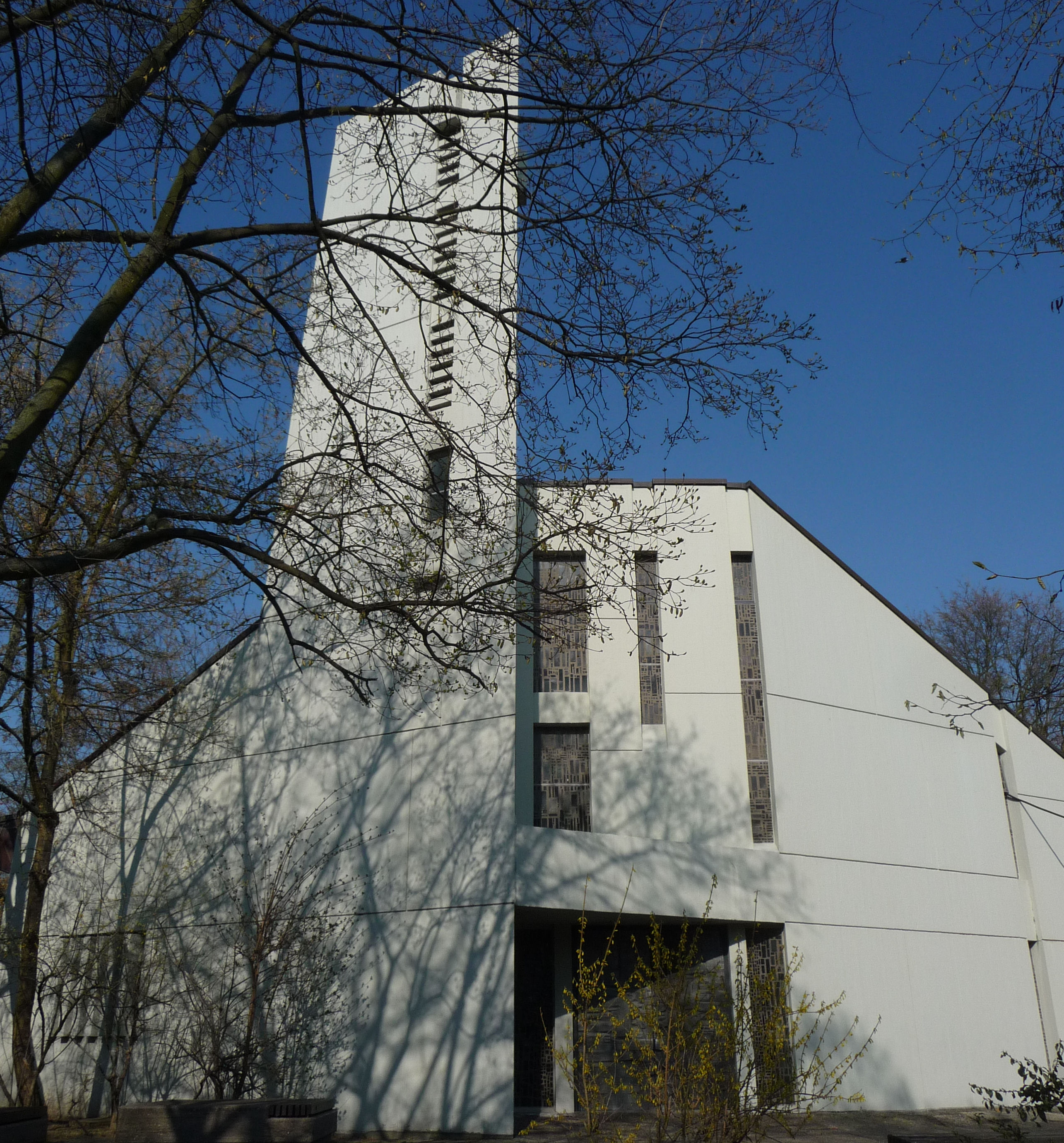 Church in Ludwigshafen, Germany